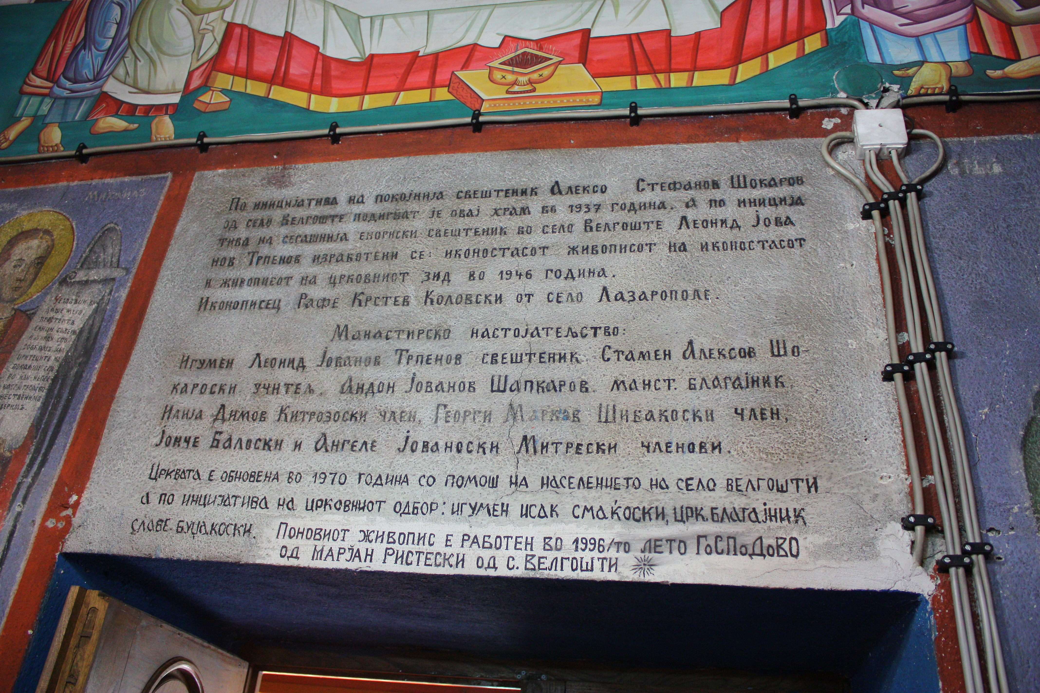 St. Elijah Church in Velgošti, Macedonia